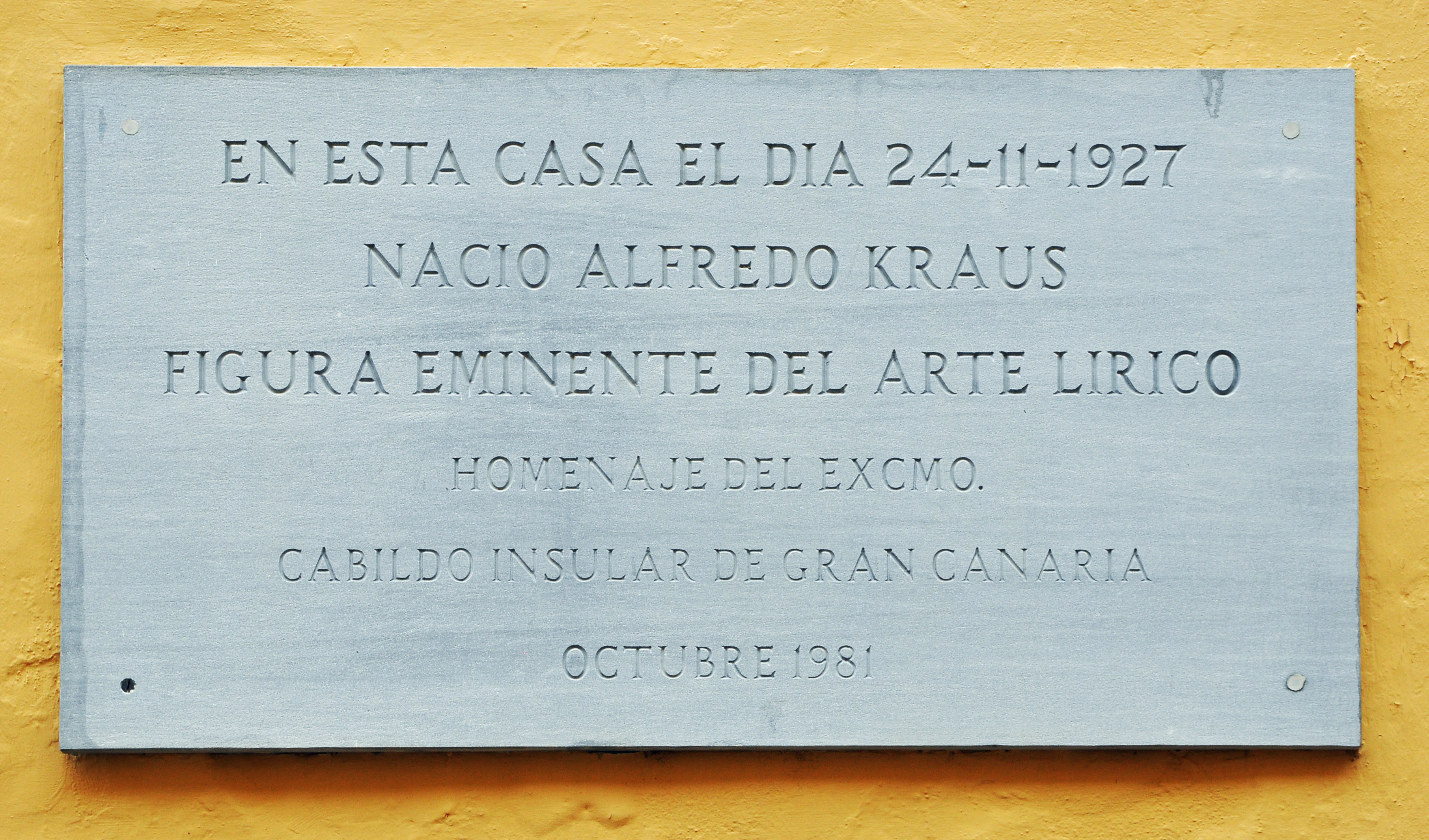 Las Palmas (Gran Canaria): memorial tablet on the birthplace of Alfredo Kraus in the Calle de Colón. Translation of the text: "In this house was born on the 24th of November 1927 Alfredo Kraus, distinguished personality in the art of singing. Tribute of the Insular Council of Gran Canaria, October 1981".